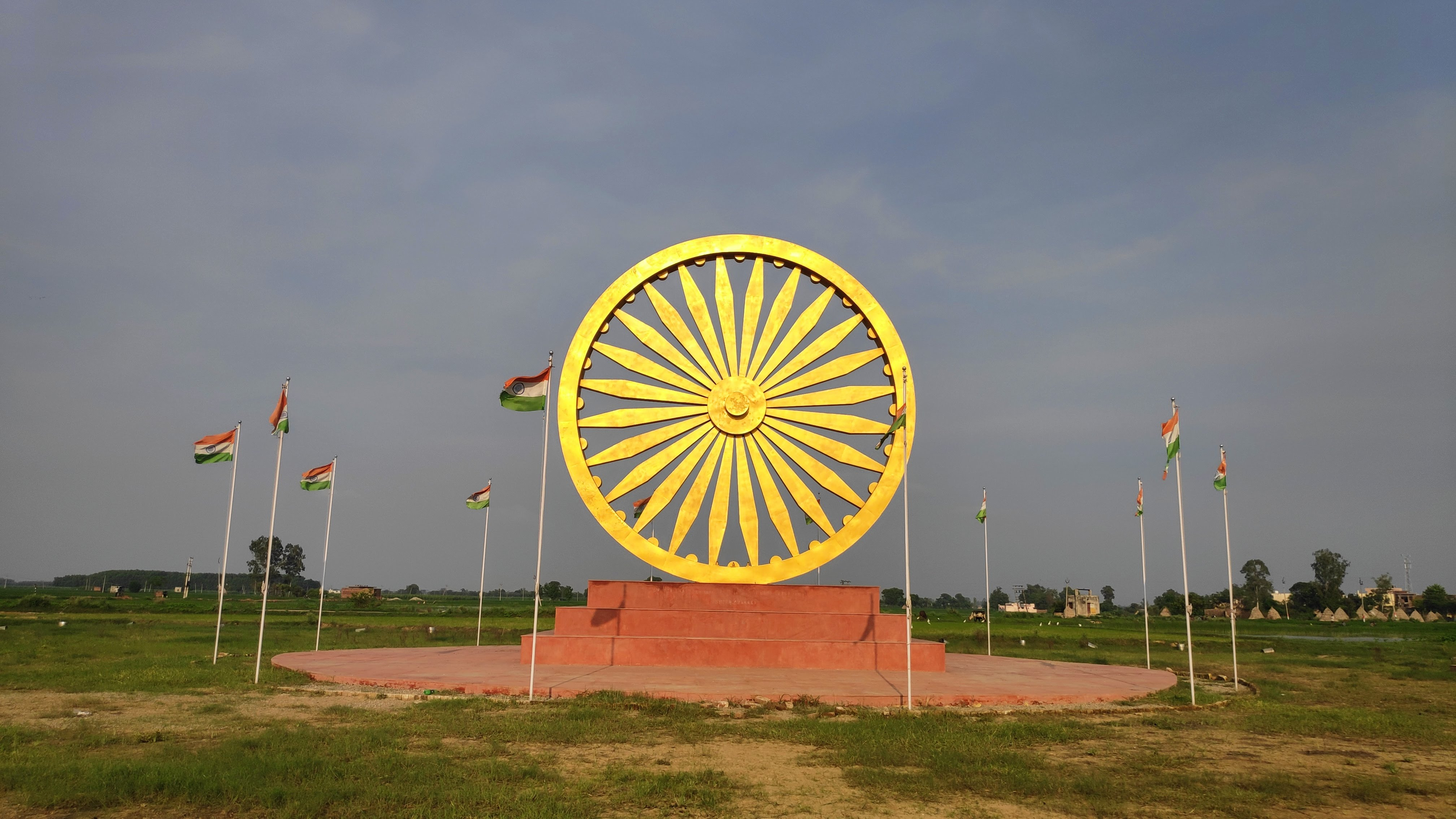 Ashoka chakra view Ashok Satambh Park at topra kalan